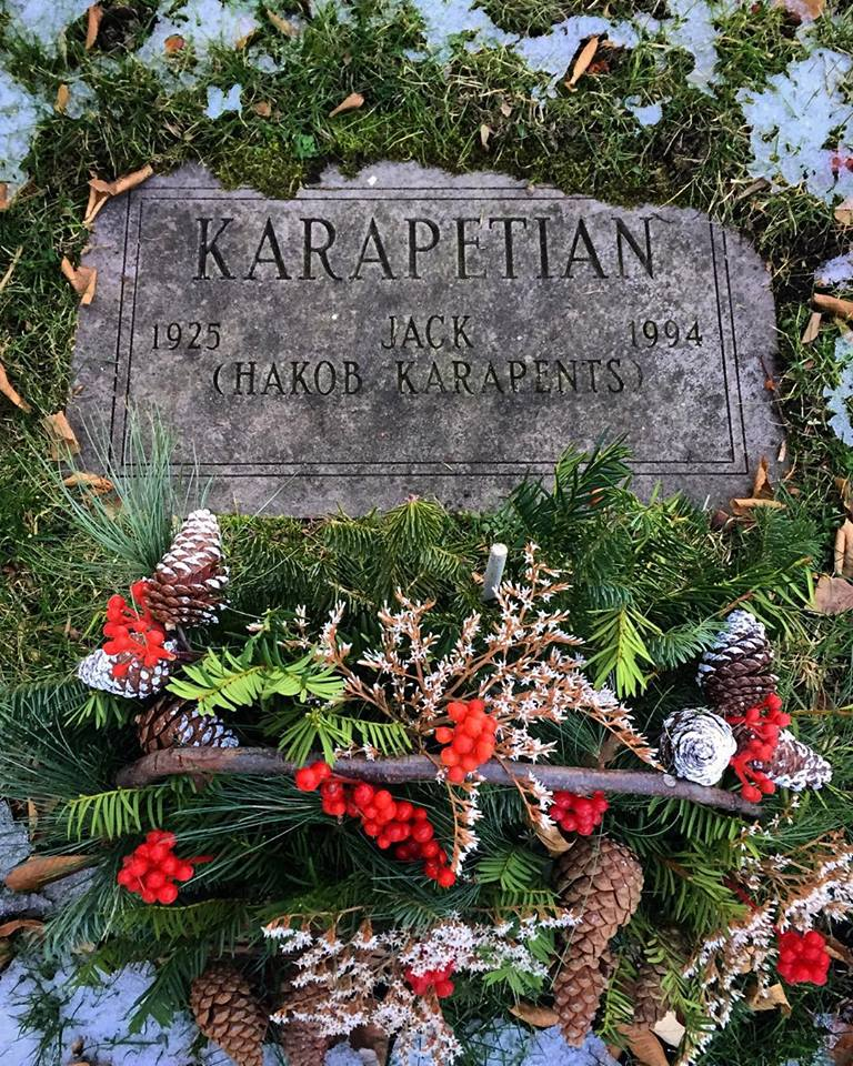 Hakob Karapents (Յակոբ Կարապենց), also known as Jack Karapetian, was a prolific Iranian-Armenian author born in 1925 in Tabriz, Iran. He settled in the United States in 1947. He wrote numerous novels and short stories during his life span in both Armenian and English. He died in 1994 in Watertown, Massachusetts.